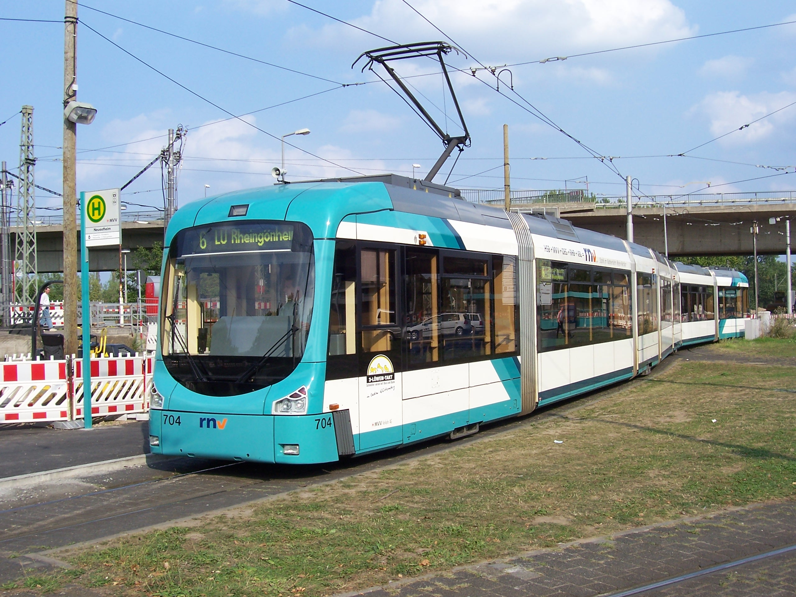 Rhein-Neckar-Variobahn (RNV8) owned by MVV Verkehr AG in Mannheim-Neuostheim, Germany My own photo from 03-sep-2005